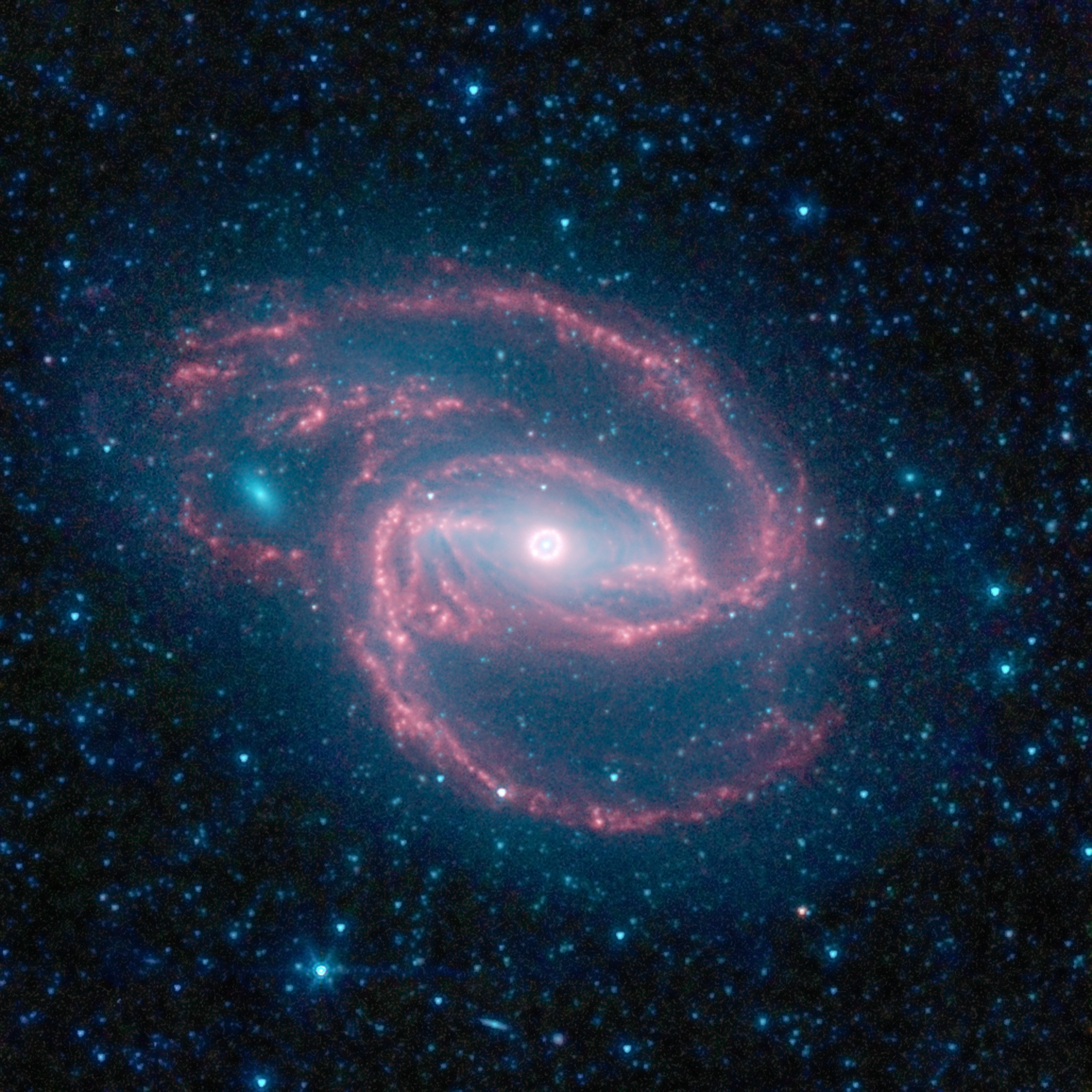 NASA's Spitzer Space Telescope has imaged a wild creature of the dark — a coiled galaxy with an eye-like object at its center.The 'eye' at the center of the galaxy is actually a monstrous black hole surrounded by a ring of stars. In this color-coded infrared view from Spitzer, the area around the invisible black hole is blue and the ring of stars, white. The galaxy, called NGC 1097 and located 50 million light-years away, is spiral-shaped like our Milky Way, with long, spindly arms of stars. The black hole is huge, about 100 million times the mass of our sun, and is feeding off gas and dust, along with the occasional unlucky star. Our Milky Way's central black hole is tame in comparison, with a mass of a few million suns. The ring around the black hole is bursting with new star formation. An inflow of material toward the central bar of the galaxy is causing the ring to light up with new stars. And, the galaxy's red spiral arms and the swirling spokes seen between the arms show dust heated by newborn stars. Older populations of stars scattered through the galaxy are blue. The fuzzy blue dot to the left, which appears to fit snugly between the arms, is a companion galaxy. Other dots in the picture are either nearby stars in our galaxy, or distant galaxies. This image was taken during Spitzer's cold mission, before it ran out of liquid coolant. The observatory's warm mission is ongoing, with two infrared channels operating at about 30 degrees Kelvin (-406 degrees Fahrenheit). The colors blue, green, and red respectively indicate infrared light of wavelengths 3.6, 4.5, and 8.0 μm (micrometers). The "blue" light has also been subtracted from the "red" in order to enhance the visibility of the dust features.